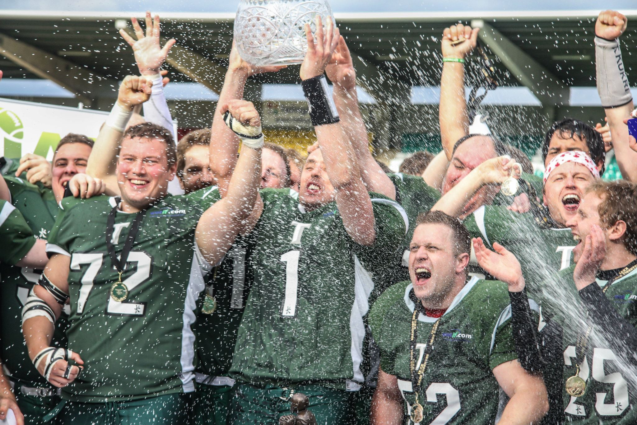 Trojans lift the Shamrock Bowl